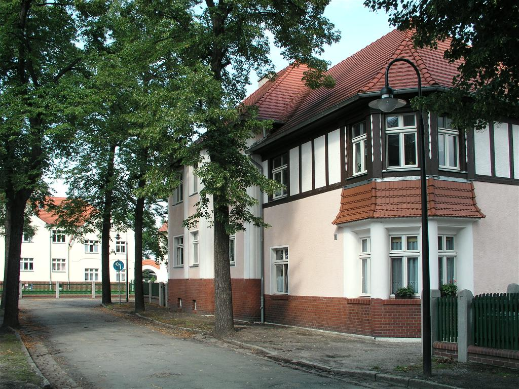 Senftenberg-Marga, Brandenburg, Germany: street in the town, photo 2003